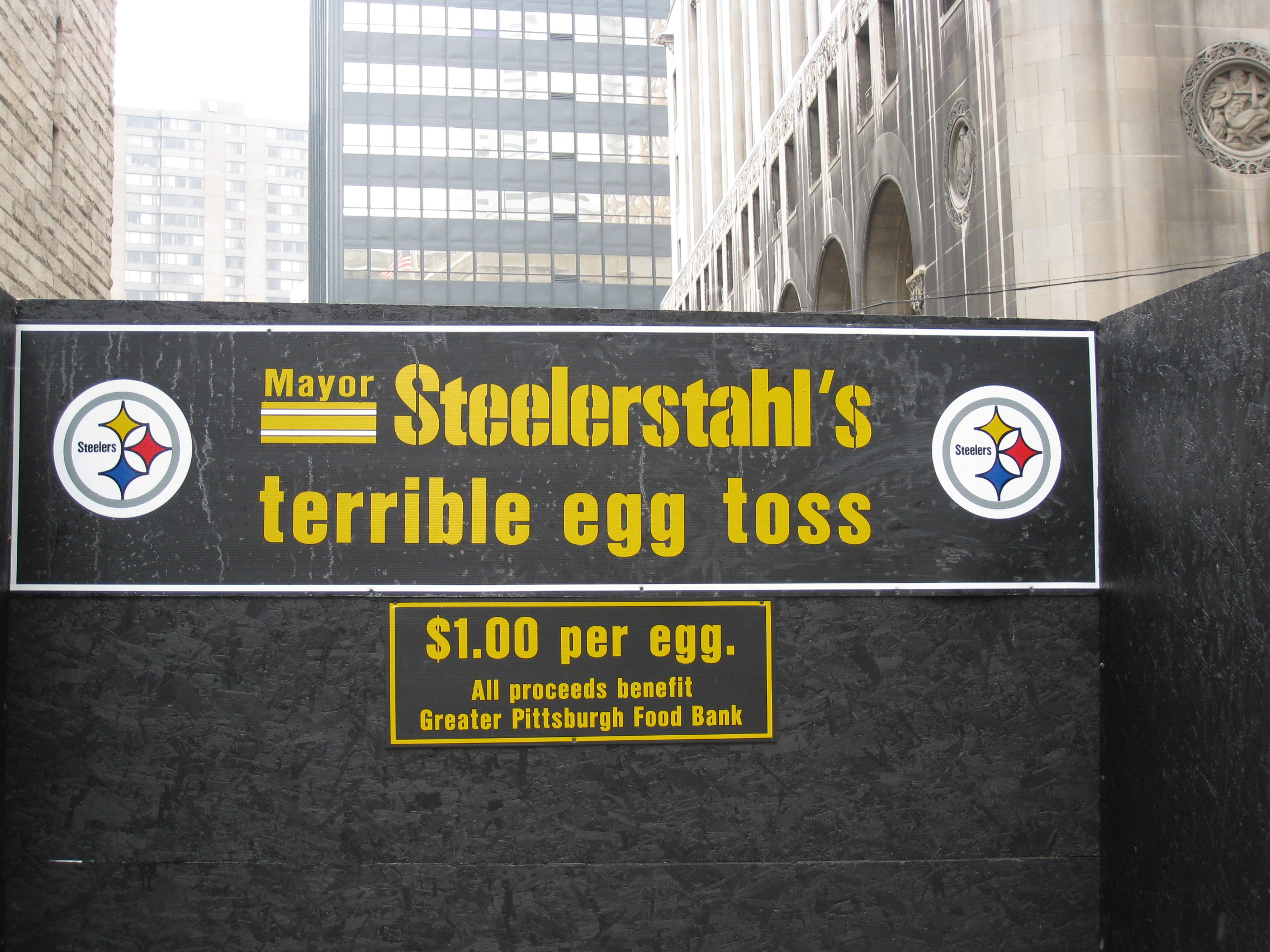 On Forbes Avenue between Pittsburgh City-County Building and Allegheny County Courthouse on Thursday before the Pittsburgh Steelers play the Arizona Cardinals in Super Bowl XLIII. The sign says, "Mayor Steelerstahl's terrible egg toss. $1 per egg. All proceeds benefit goes to Greater Pittsburgh Food Bank." Mayor of Pittsburgh Luke Ravenstahl had changed his name to "Steelerstahl" in honor of the team. The fans tribute paid to throw the eggs to dressed up Cardinals mascot, unfortunately, I missed to take the pictures after I leave the pep rally. The title of the event is a nod to the Terrible Towel.